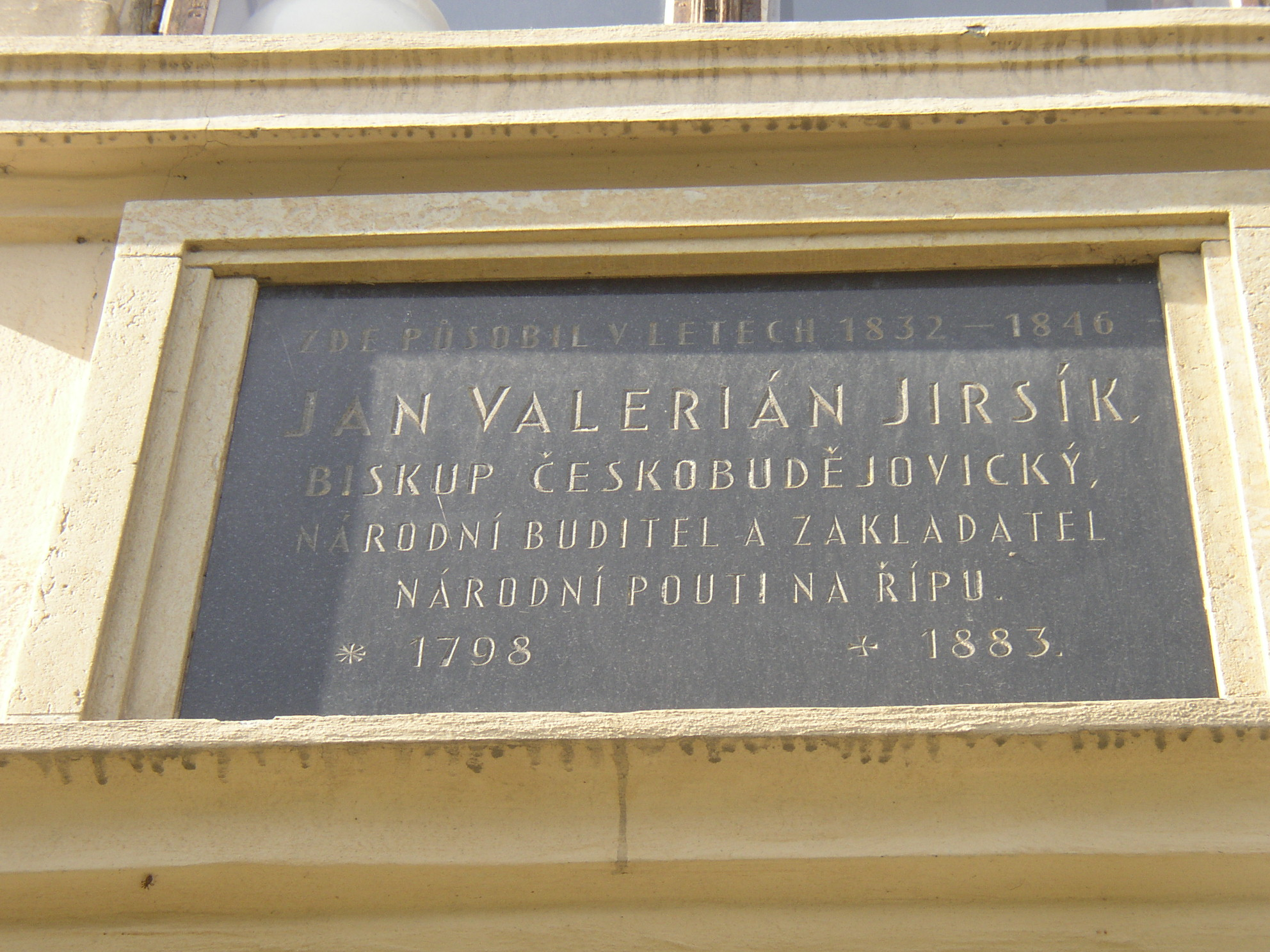 Plaque above entrance of rectory in Minice, suburb of Kralupy nad Vltavou, Czech Republic. Installed in 1934, it commemorates Jan Valerián Jirsík, one of Czech national revival champions and later Bishop of České Budějovice, who was stationed here as priest between 1832 and 1846.